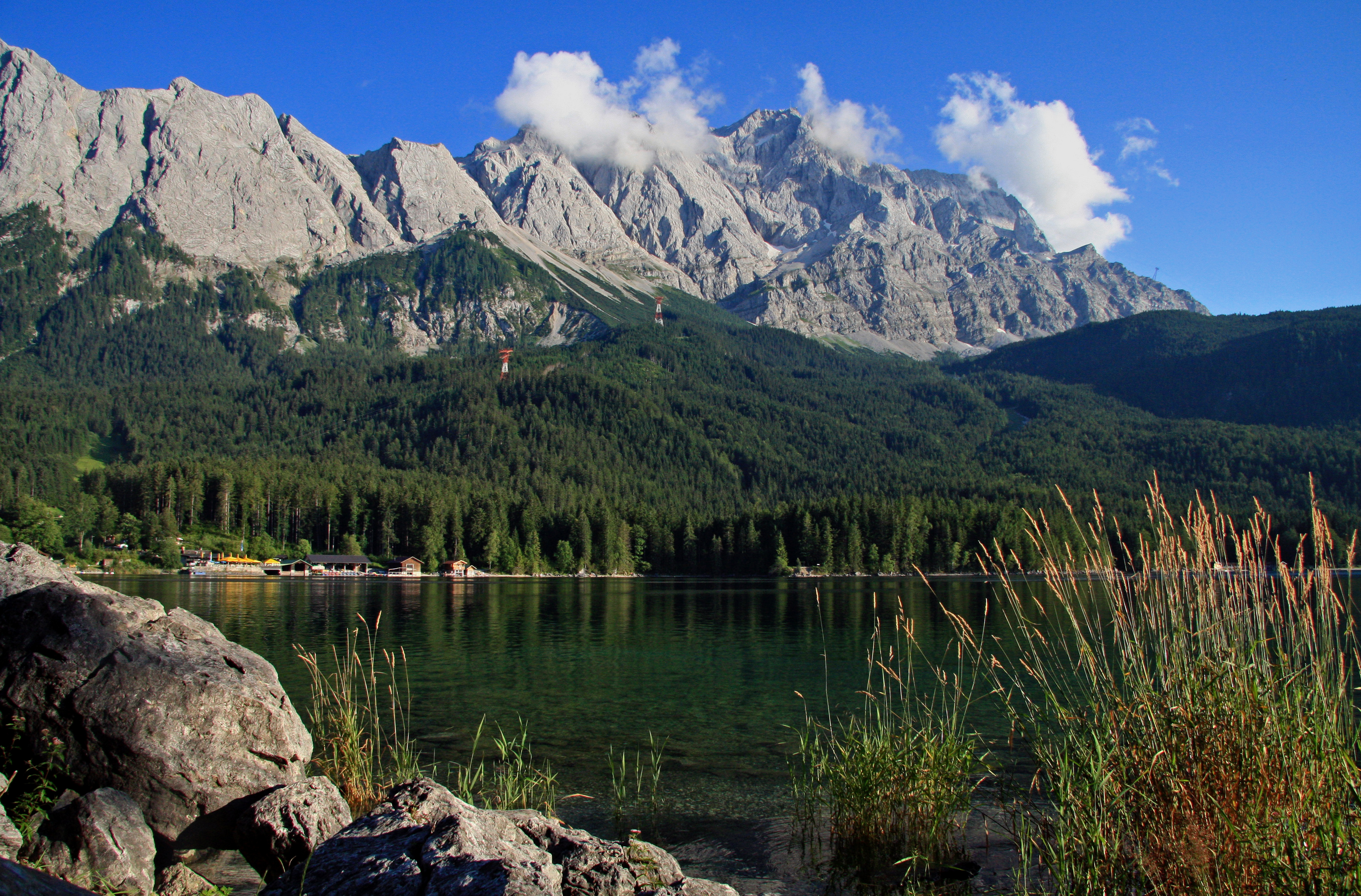 View at lake Eibsee with the mountain Zugspitze (Germany's highest mountain) in the background